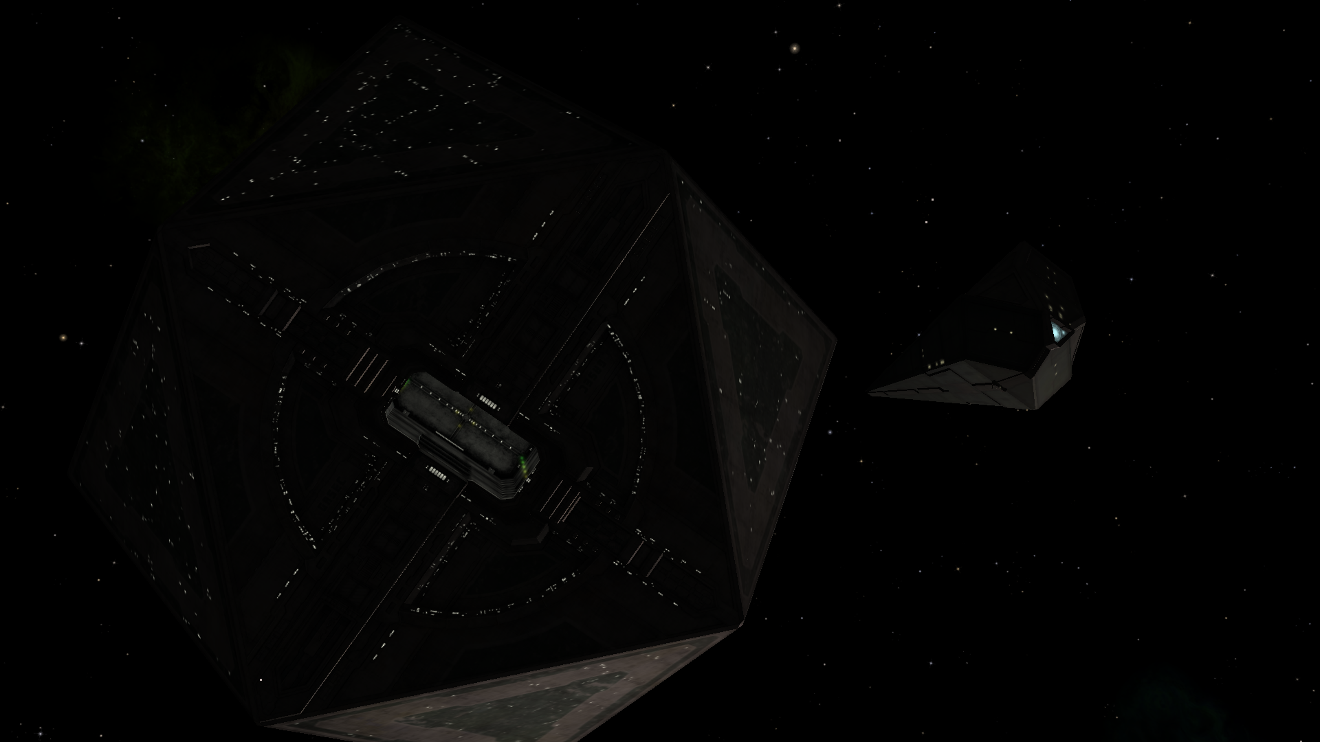 Screenshot of Oolite version 1.84